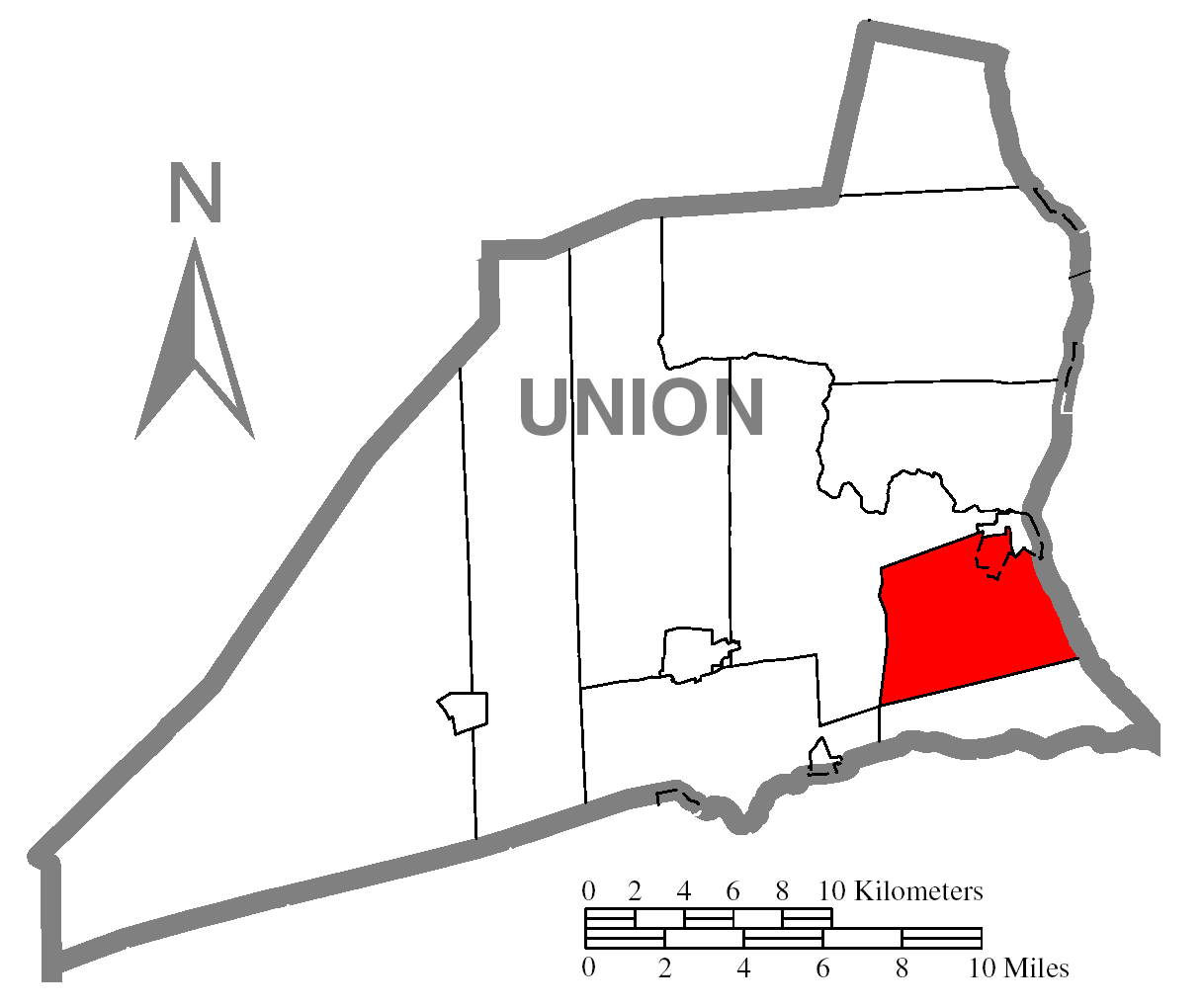 A map of Union County showing East Buffalo Township, Pennsylvania (alternate) highlighted on the map.